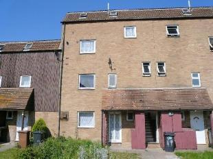 New Town Architecture in the Ortons, summer 2007